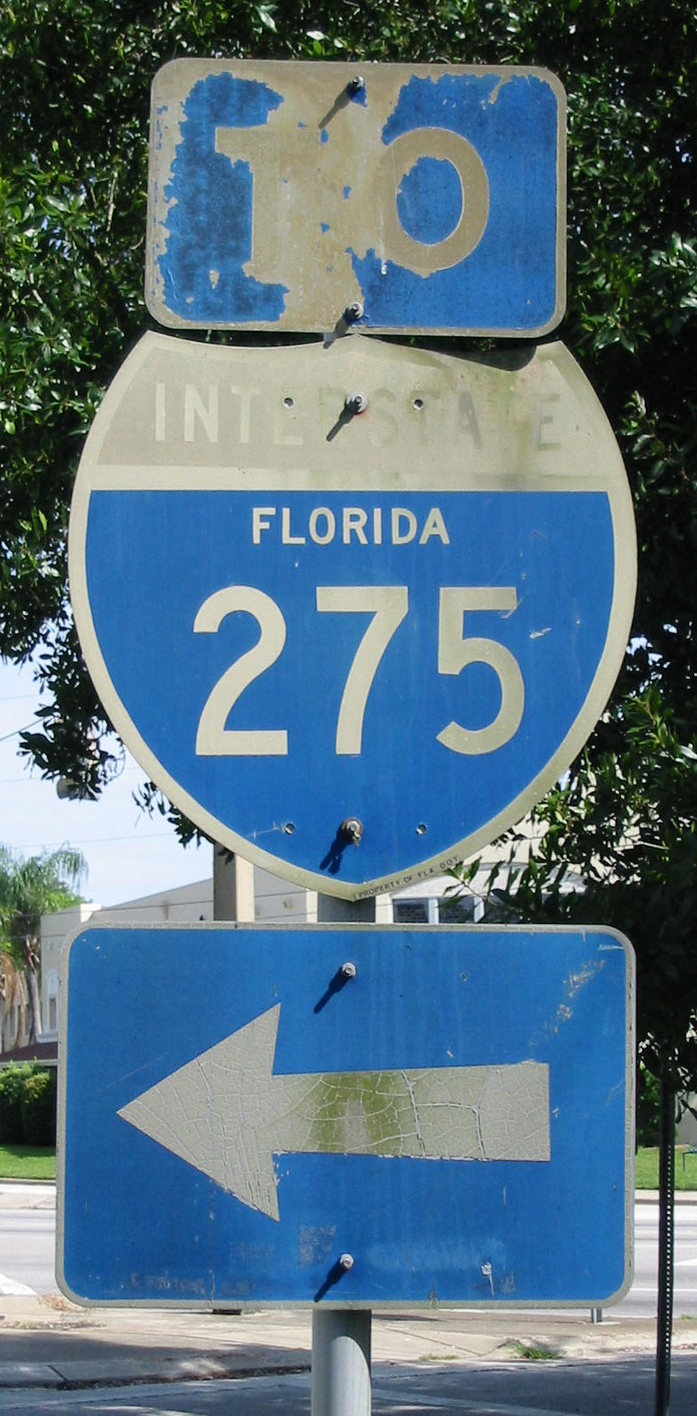 Old I-275 shield in St. Petersburg, Florida. Taken July 13, 2003 by User:SPUI. The back of the shield says "DOT / 7.76" (July 1976).